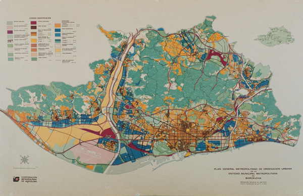 Map of territorial structure of the General Metropolitan Plan of Barcelona (1976)